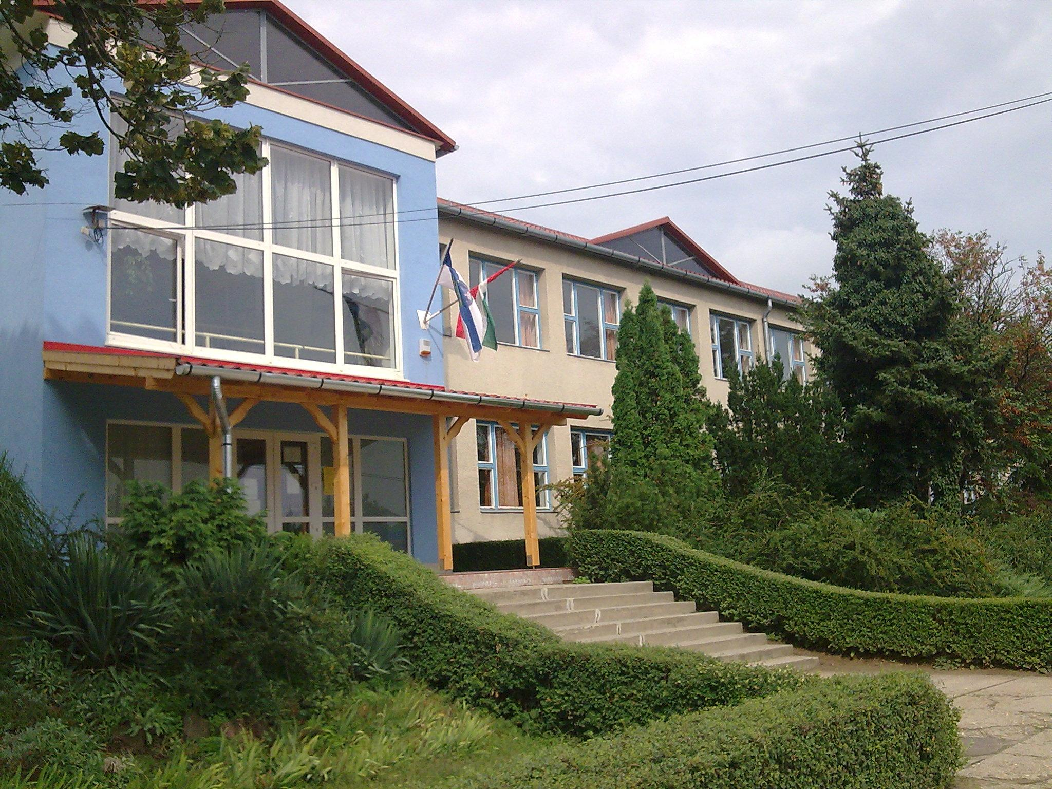 The Ferenc ("Frank") Móra Primary School in Sülysáp